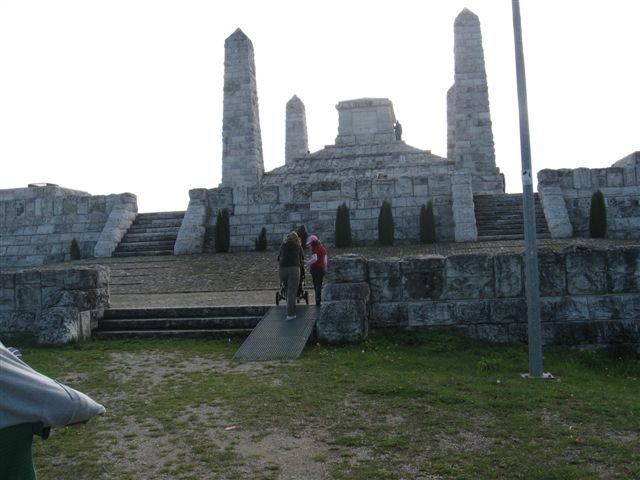 The place of the tomb of one of the founders of Czechoslovak Republik, Milan Rastislav Štefánik,the Slovak national hero and French citizen, died in aircrash downfall near Bratislava 4.May 1919, Memorial on Bradlo, Slovakia